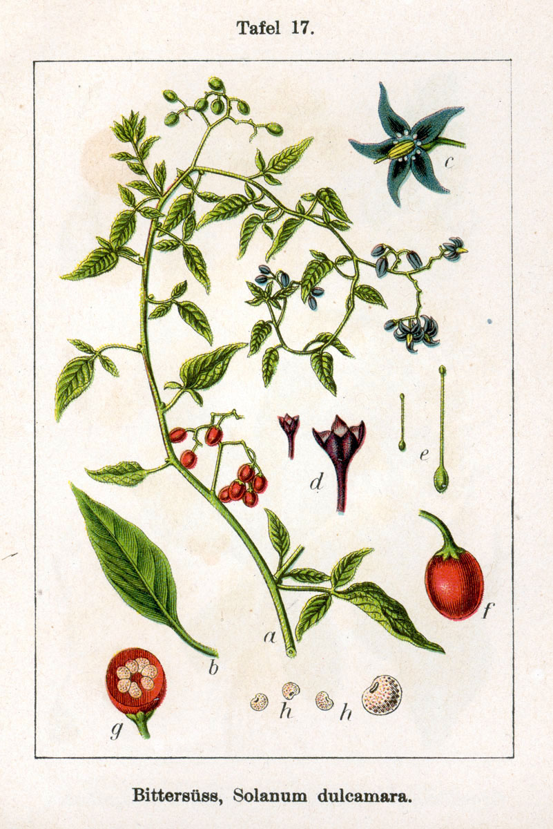 Illustration of bittersweet (Solanum dulcamara L.) Original Description Bittersüss, Solanum dulcamara